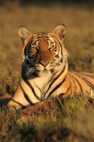 Cathay, South China Tigress, in Africa